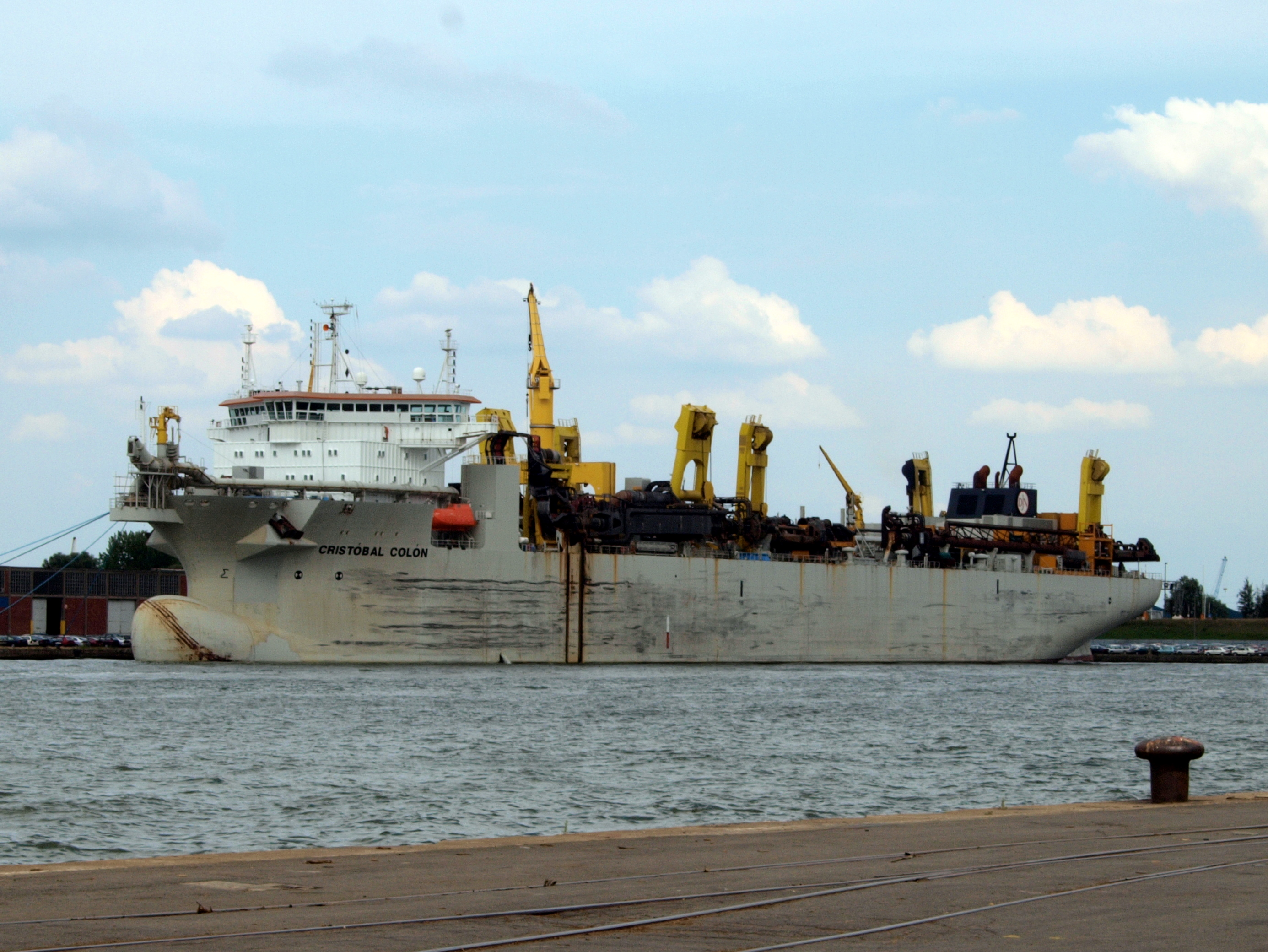 IMO: 9429583 Photographed at the "Port of Antwerp", Belgium.